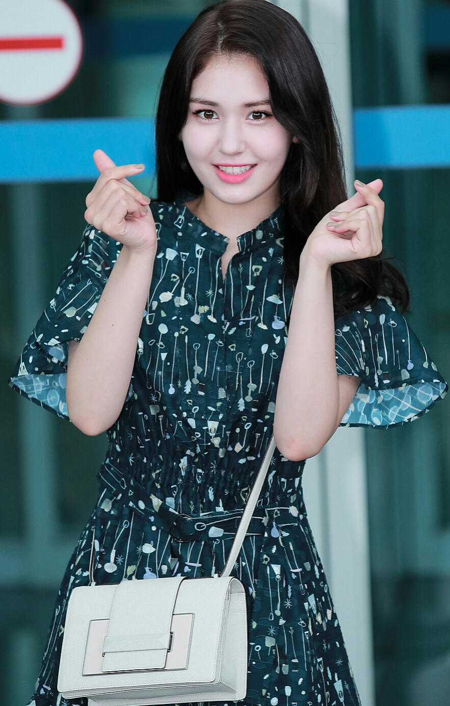 Jeon So-mi at Incheon Airport off to Hong Kong on June 6, 2017.